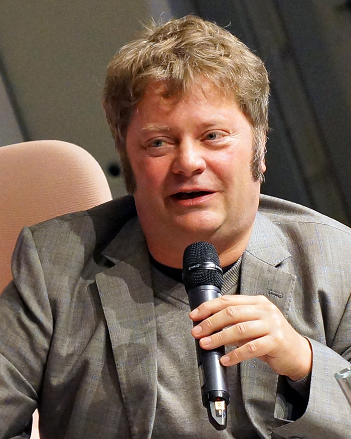 Jan Sonnergaard - Danish writer at the Copenhagen Book Fair "BogForum 2014", Copenhagen, Denmark